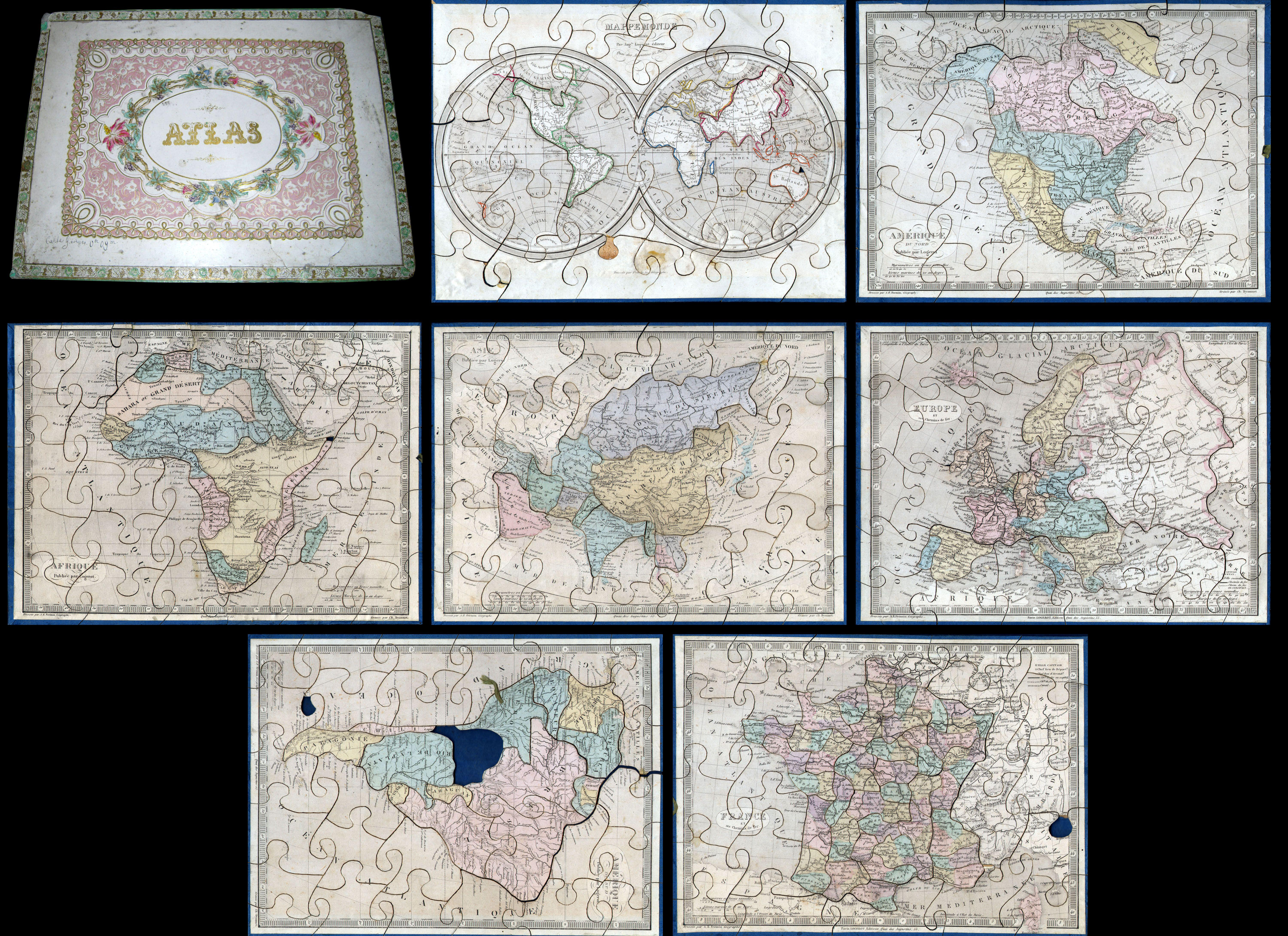 A very attractive an unusual c. 1850 jigsaw puzzle atlas published by Auguste Logerot. Consists a custom box of seven interesting jigsaw puzzle maps: the World, North America, South America, Europe, Asia, Africa and France. Each map is mounted on a board and dissected as a jigsaw puzzle. States and regions are individually dissected along their boundaries while oceans are dissected into more traditional jigsaw puzzle patterns. Individually the maps are based upon Dyonnet’s engravings for A. R. Fremin’s geography. The North American map is probably the most interesting showing Mexico’s claims to much of what is today the American Southwest, including the modern day states of California, Arizona, New Mexico, Nevada, Colorado and Utah. Texas is colored as part of the United States but looking closely one can see that it is clearly drawn as a separate independent nation. Also shows the U.S. claims to British Columbia, to the latitude of 54°40', prior to the Oregon Treat. The Africa map exhibits the somewhat limited knowledge of Africa’s interior in the early 19th century. Coastal areas are well mapped by the interior is somewhat vague. Various tribes are noted but none of the Rift Valley lakes appear. Missing a small piece on the Horn. The world map is a beautifully drawn hemispherical projection. Labels Australia as New Holland. Missing a tiny chunk near New Guinea. The map of France is divided according to departments. Missing small chunk in the lower right quadrant. South America map is missing the Bolivia piece and a small chunk in the lower left quadrant. Puzzle maps like this were first made in London by John Spilsbury in the 1760s. The style passed to the continent and became a popular educational tool in France and Germany in the early to mid 19th century. While rare and often in poor condition, these curious maps and atlases are among the most amusing and whimsical geographic themed educational devices to appear in the 19th century.